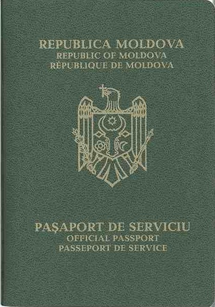 Cover of Service Moldovan Passport